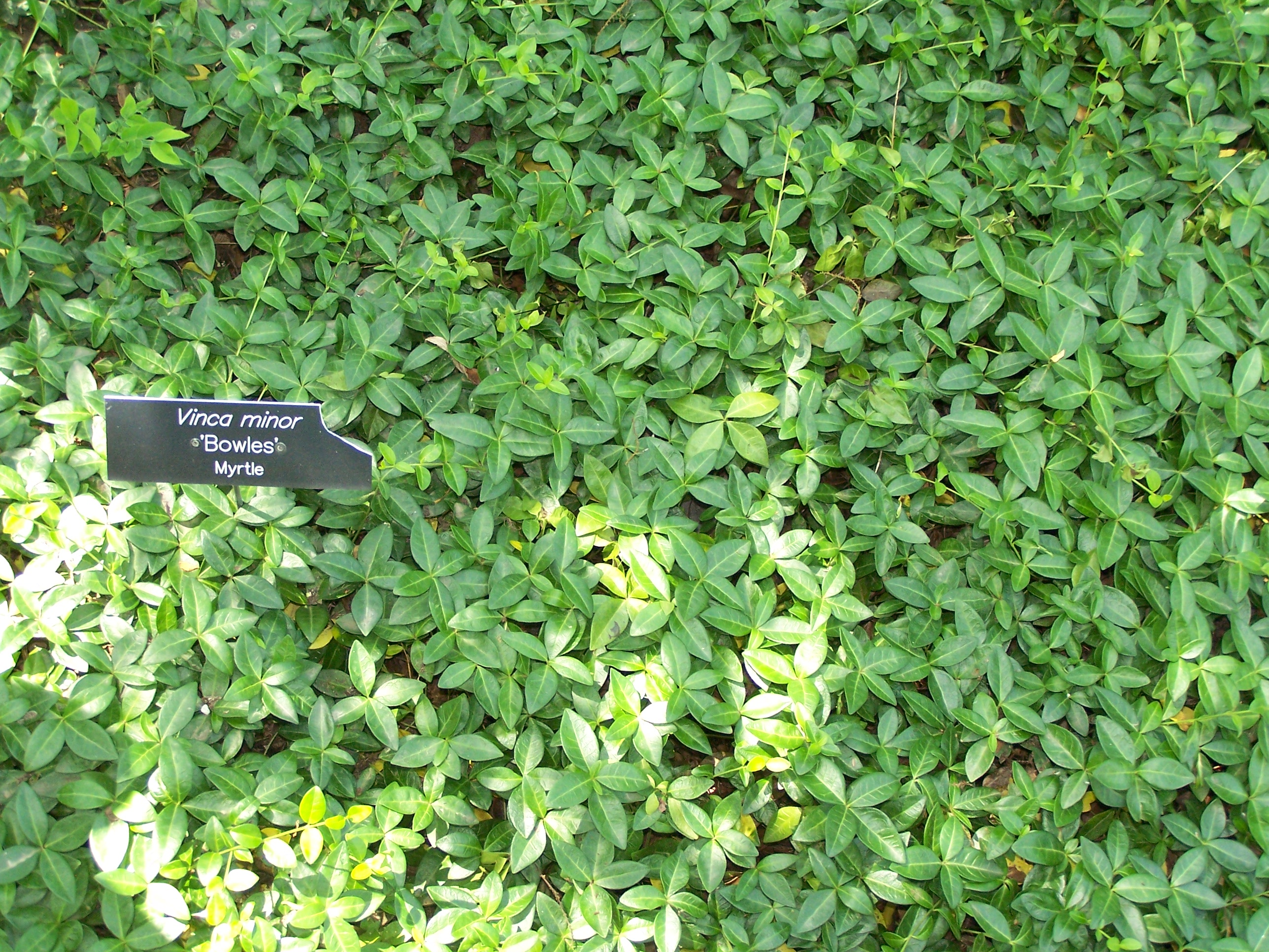 Patch of vinca minor at Minnesota Landscape Arboretum